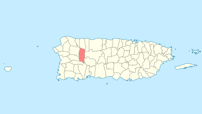 Municipal locator of Puerto Rico